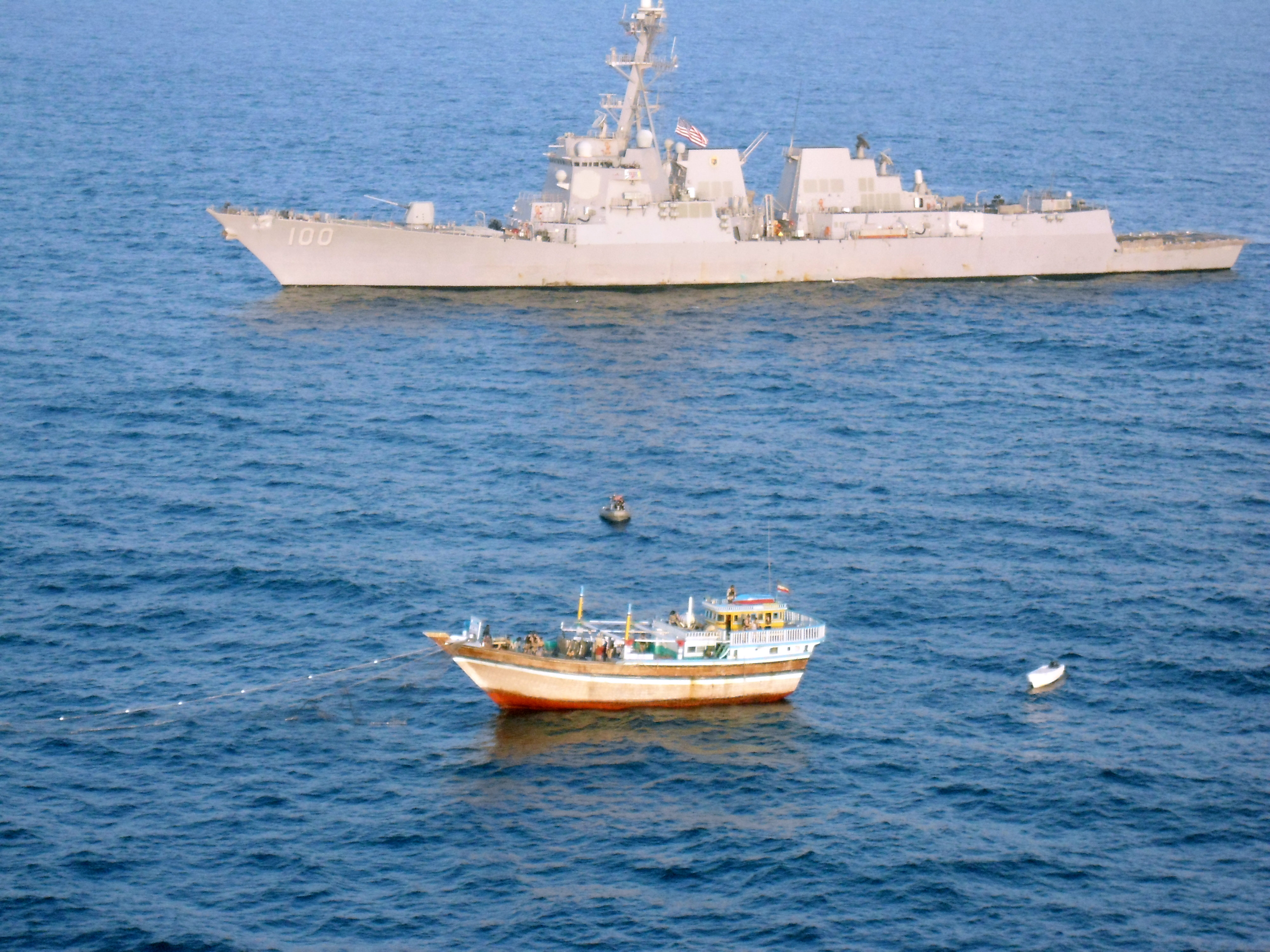 120105-N-ZZ999-003 ARABIAN SEA (Jan. 5, 2012) The guided-missile destroyer USS Kidd (DDG 100) responds to a distress call from the master of the Iranian-flagged fishing dhow Al Molai, who claimed he was being held captive by pirates. Kidd's visit, board, search and seizure team, boarded and detained 15 suspected pirates, who were reportedly holding the 13-member Iranian crew hostage for the last two months. Kidd is conducting counter-piracy and maritime security operations while deployed to the U.S. 5th Fleet area of responsibility. (U.S. Navy photo/Released)